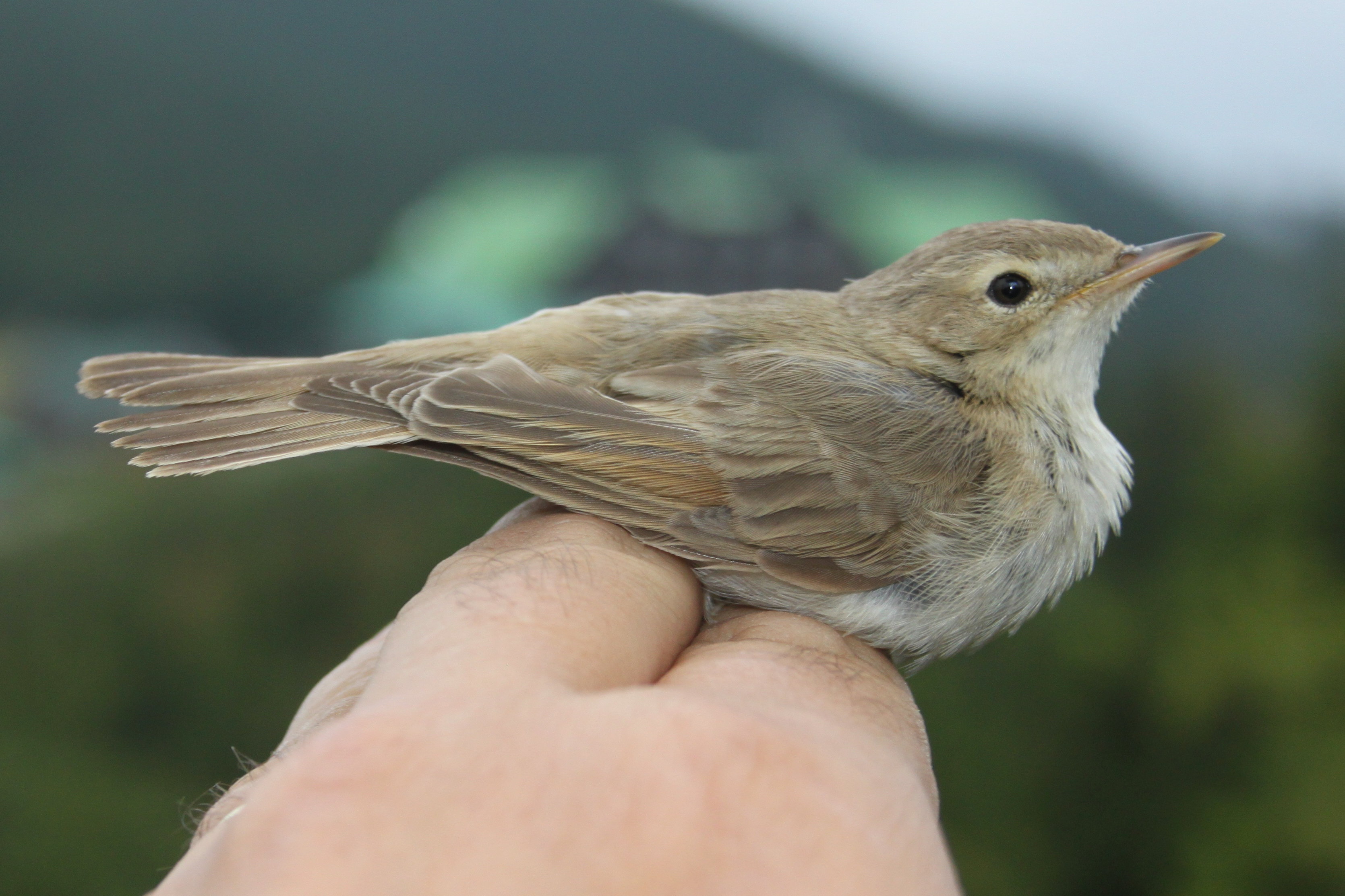 Booted Warbler, ringed on 4th September 2013 at Cervenohorske sedlo, Czech republic (the first Czech record)